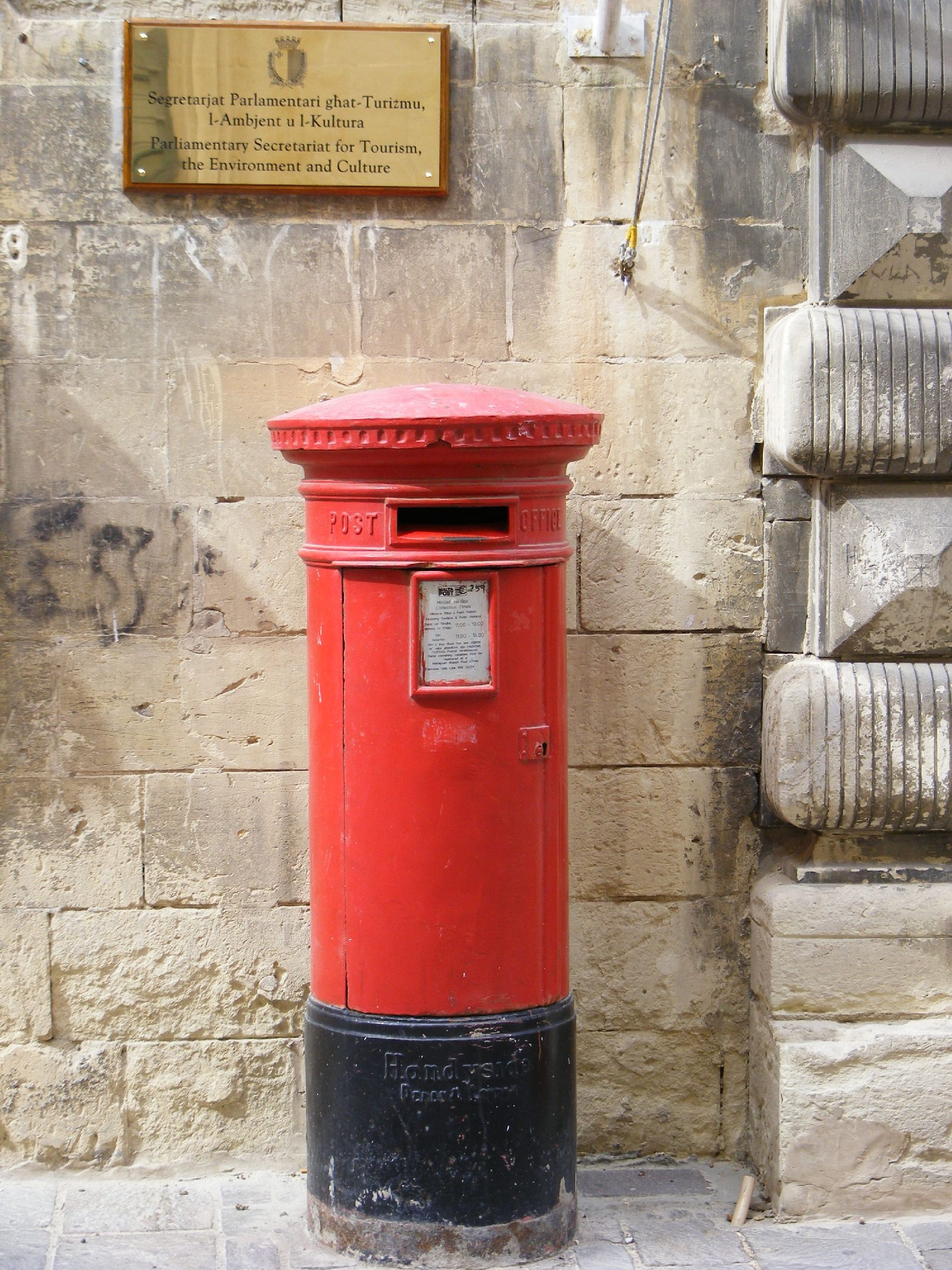 Pillar box in Malta without royal cypher. Made by Andrew Handyside & Co, Derby and London